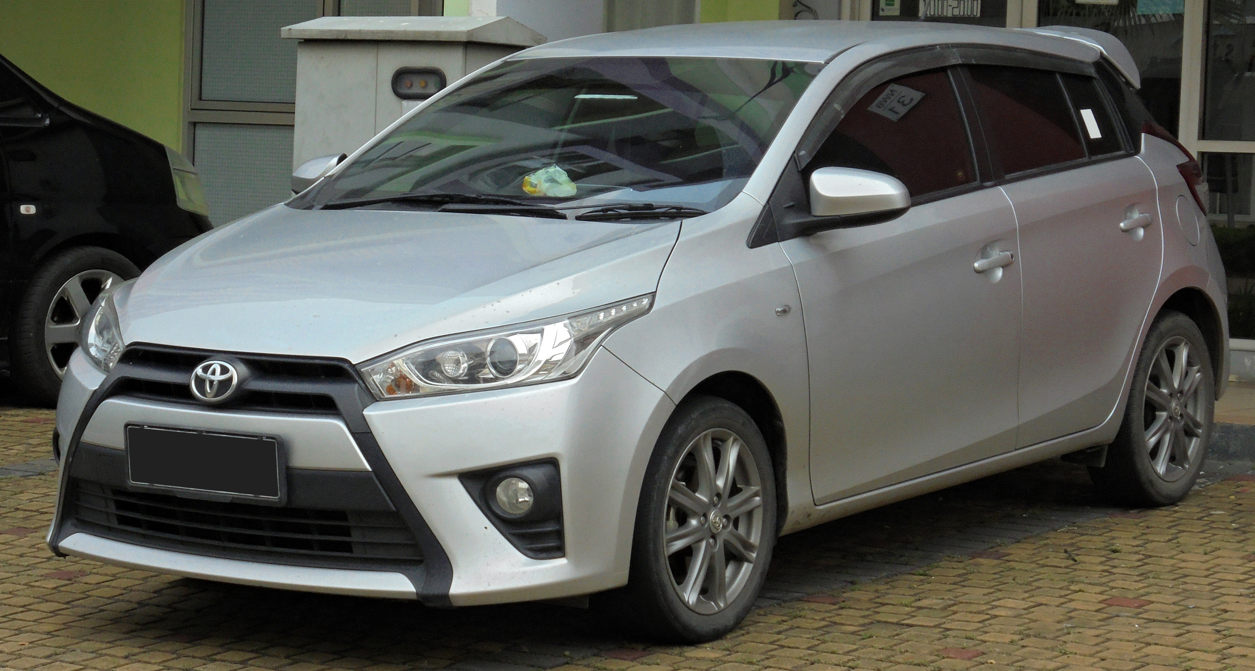 2016 Toyota Yaris 1.5 G (NCP150R)